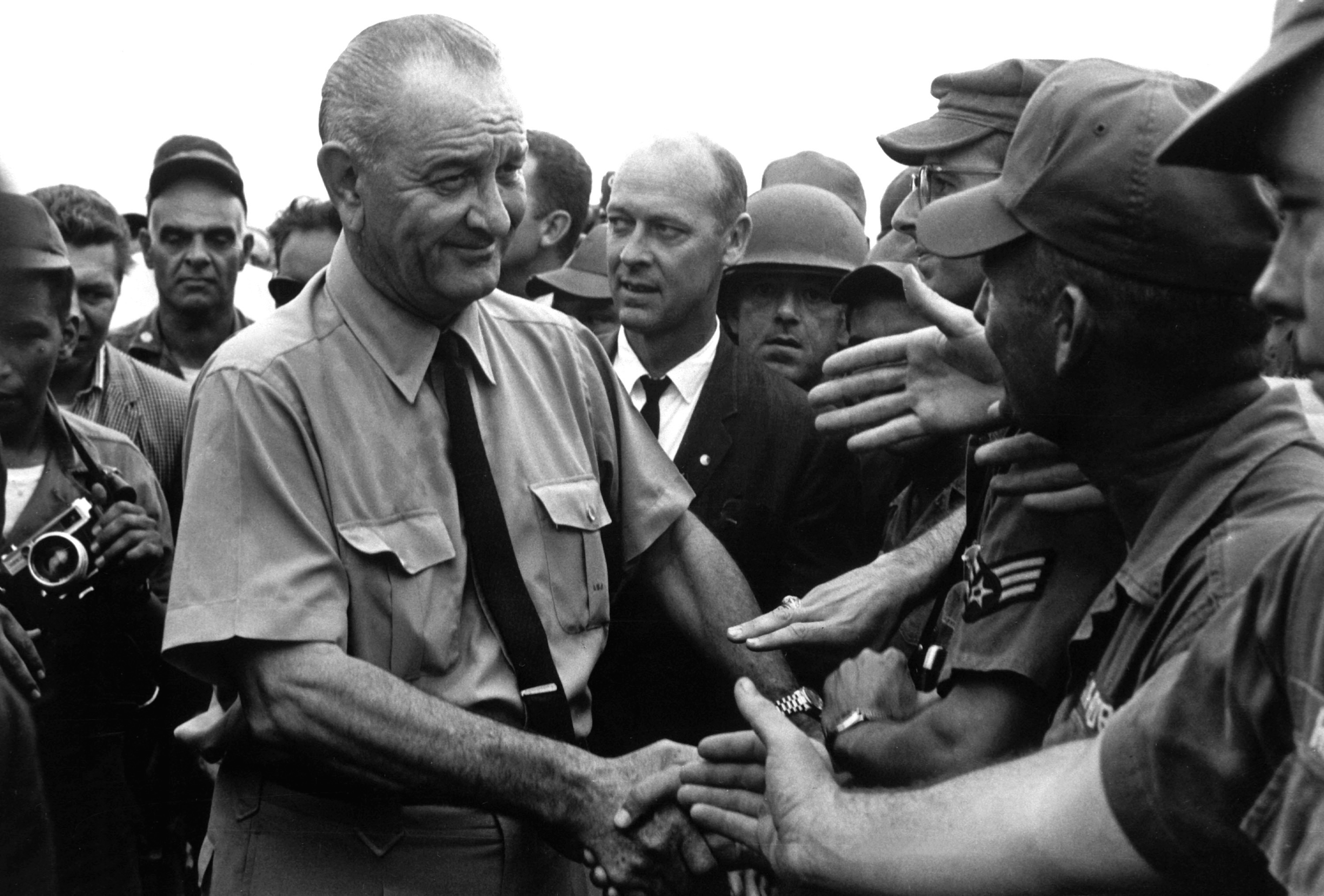 President Lyndon B. Johnson greets American troops in Vietnam.